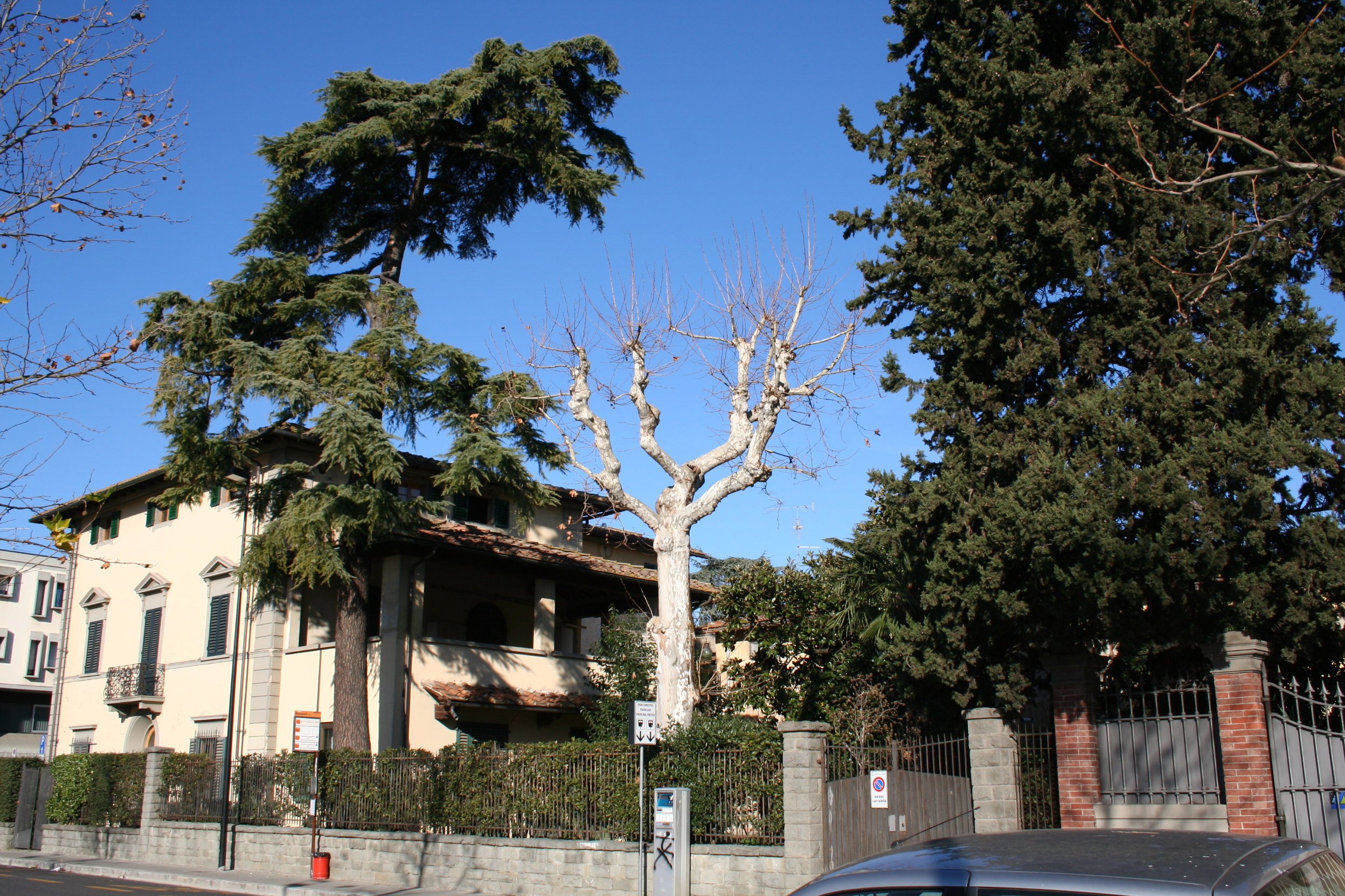 Landscape of a street in Scandicci